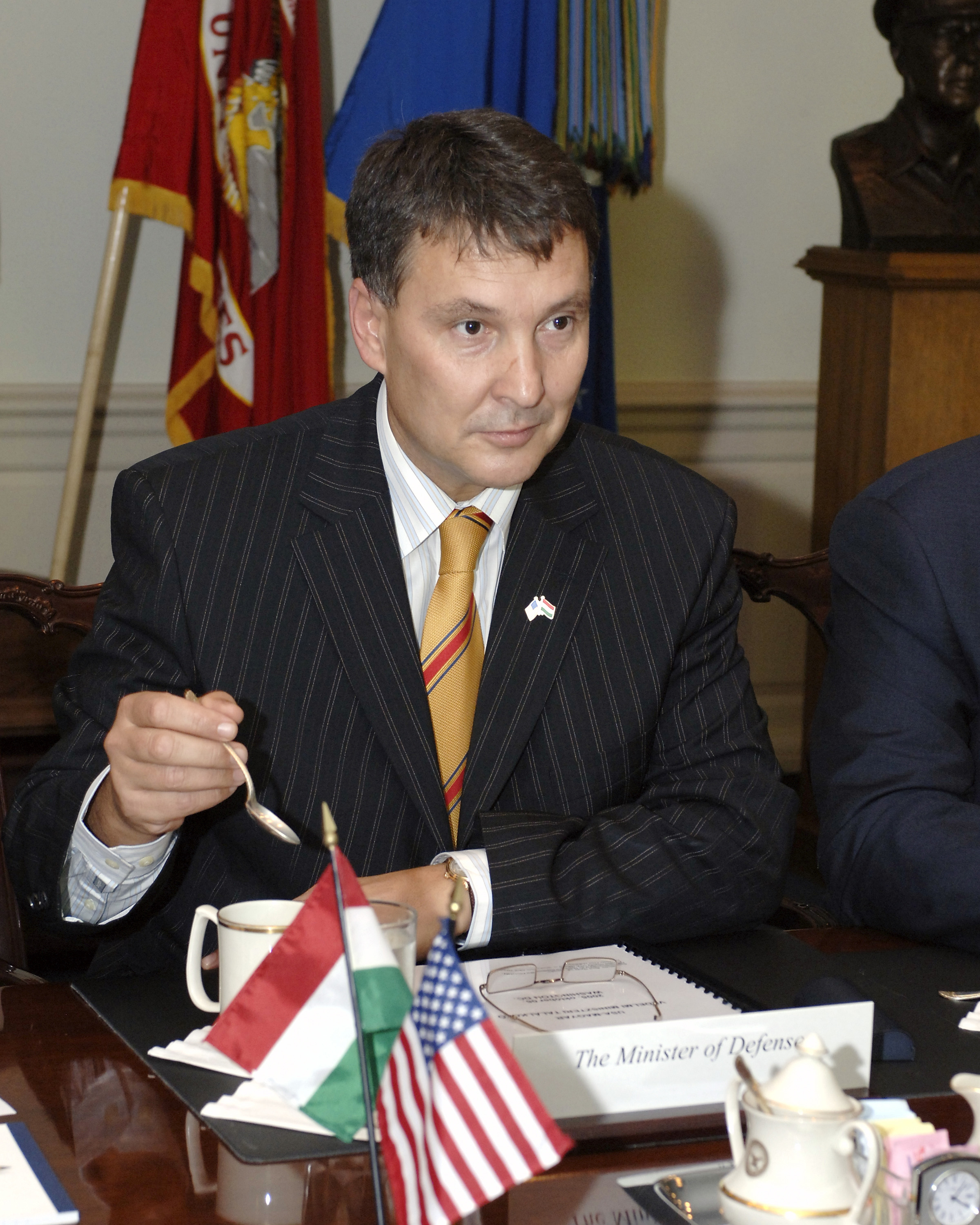 Hungary's Minister of Defense Ferenc Juhasz meets with Secretary of Defense Donald H. Rumsfeld in the Pentagon on Oct. 6, 2005. Juhasz and Rumsfeld are meeting to discuss defense issues of mutual interest.